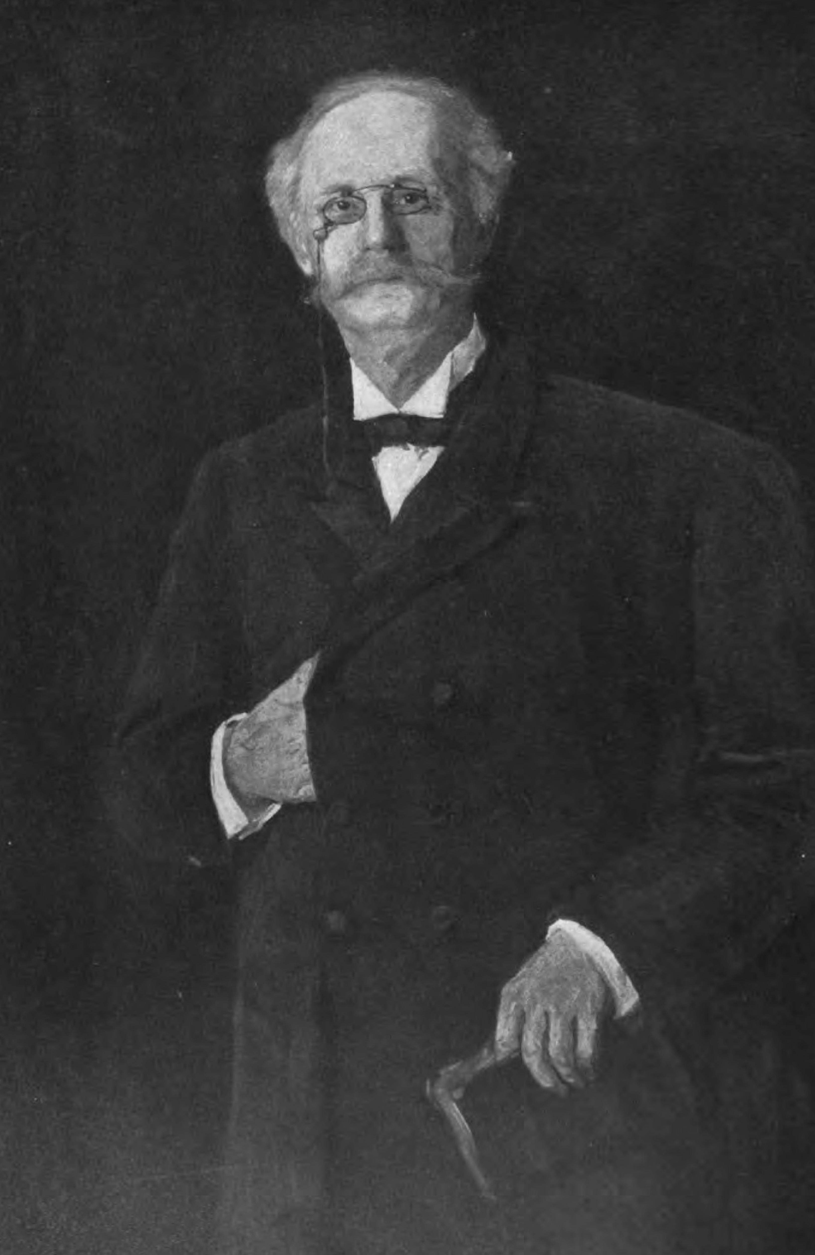 Christian Karl Bernhard, Freiherr von Tauchnitz was the son of Christian Bernhard, Freiherr von Tauchnitz (1816-1895), the founder of the firm of Bernhard Tauchnitz and took over from his father after his death.